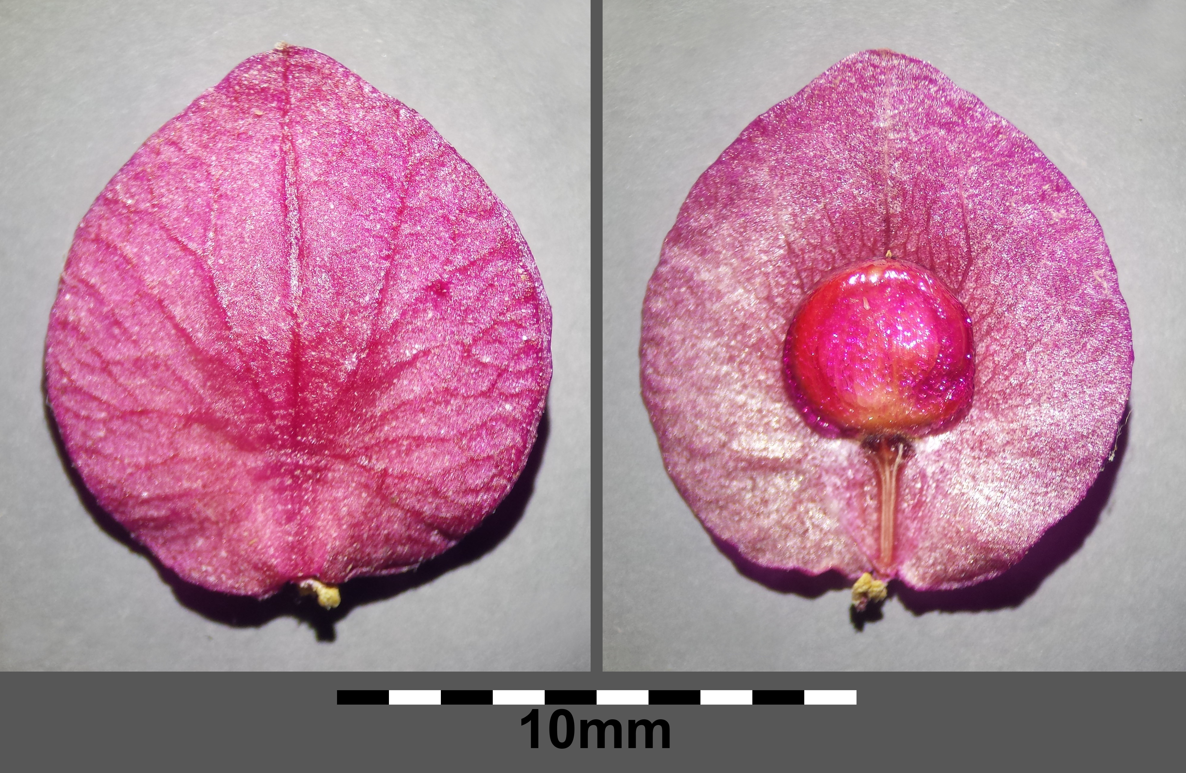 Female flower with two prophylls, on the right front prophyll removed Taxonym: Atriplex hortensis ss Fischer et al. EfÖLS 2008 ISBN 978-3-85474-187-9 Location: Groß-Jedlersdorf cemetery, Vienna-Floridsdorf - ca. 160 m a.s.l. Habitat: idle grave